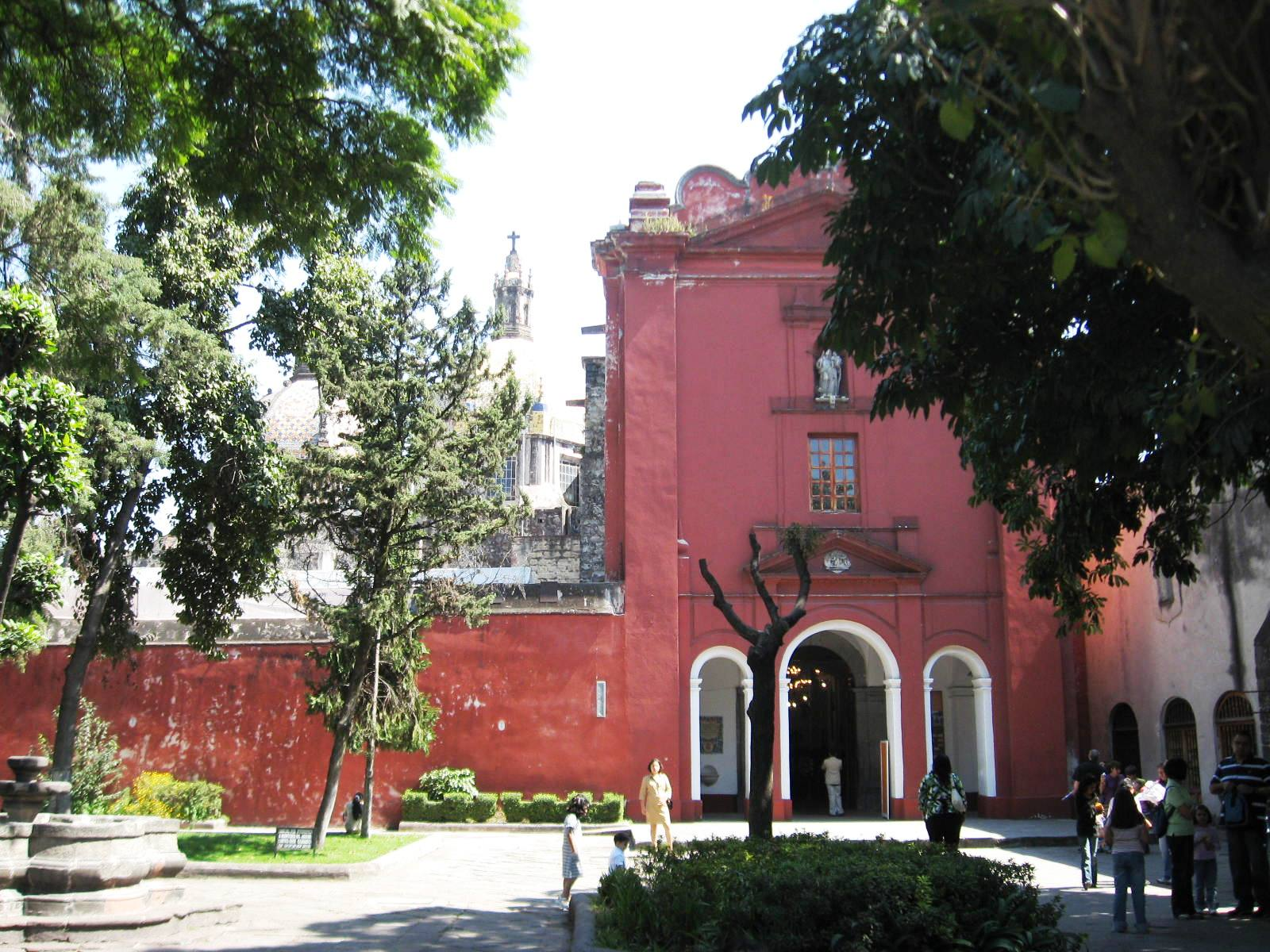 Ex covent of El Carmen located in the San Angel colonia of Mexico City